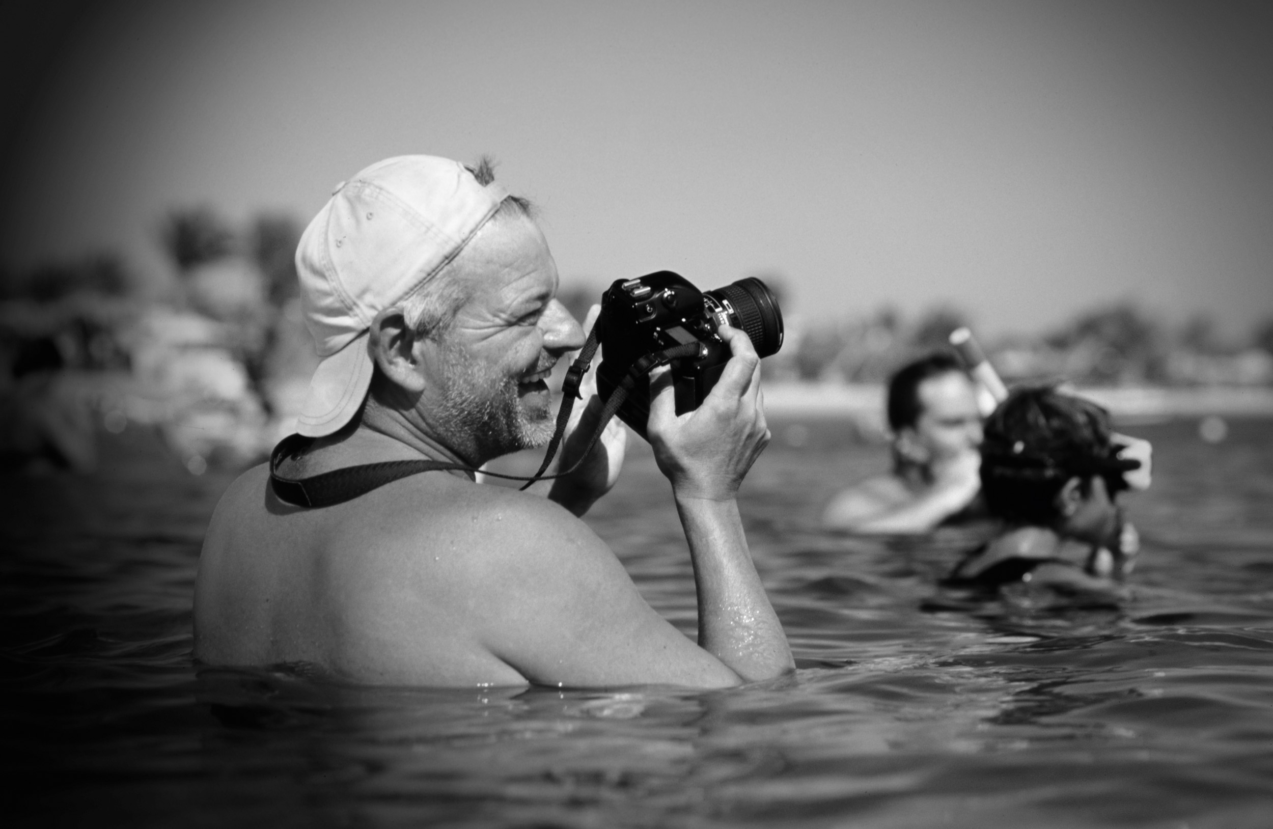 Otto Kasper Location Shooting